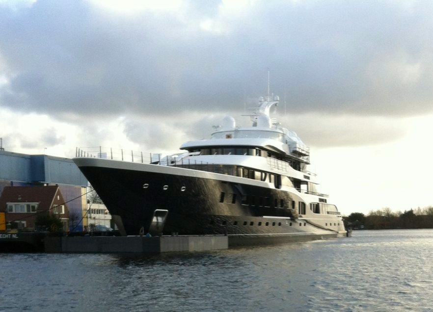 MY Symphony a month after her launch by the Van Lent yard.